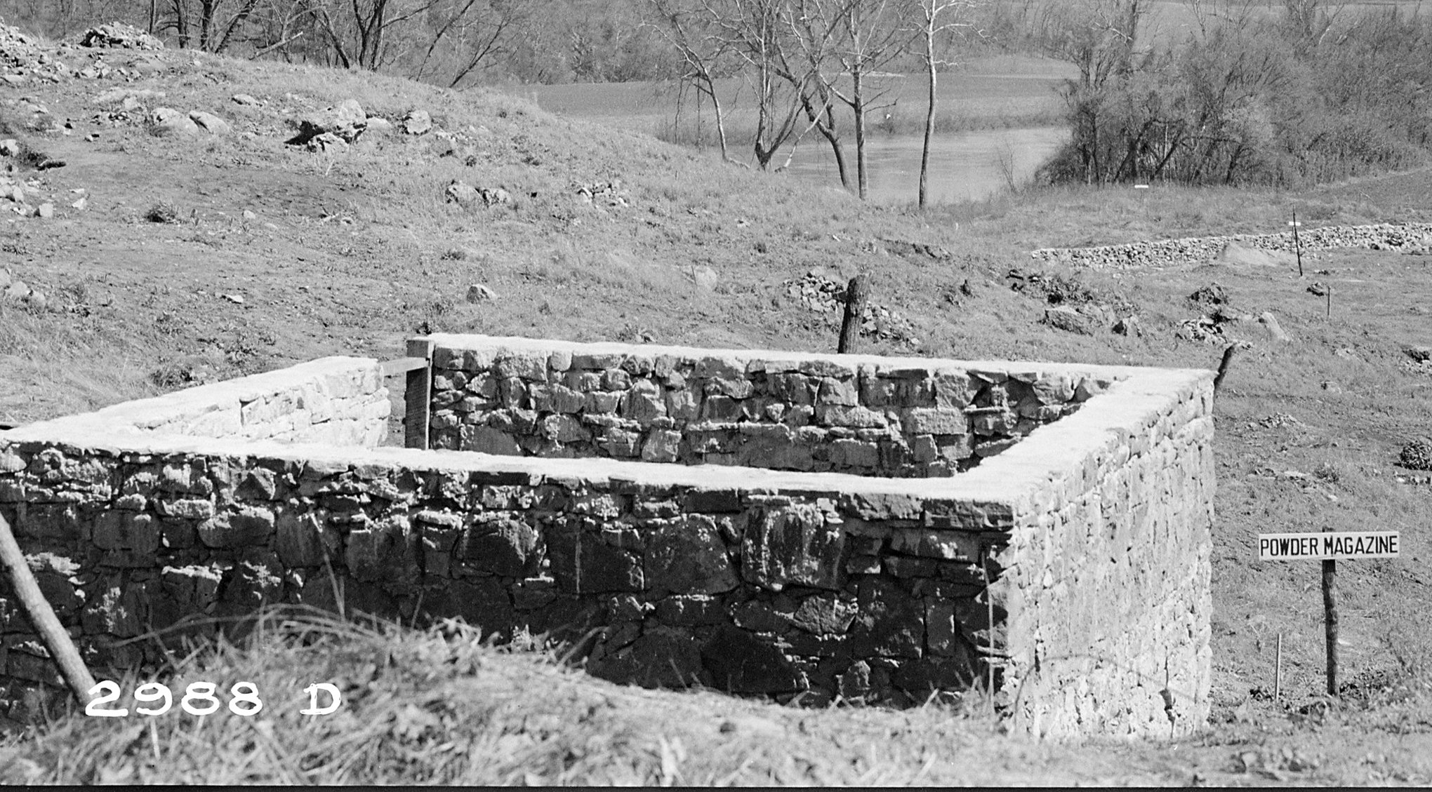 General notes: Detail of the reconstructed foundation of the powder magazine at Fort Loudoun in Monroe County, Tennessee, United States.